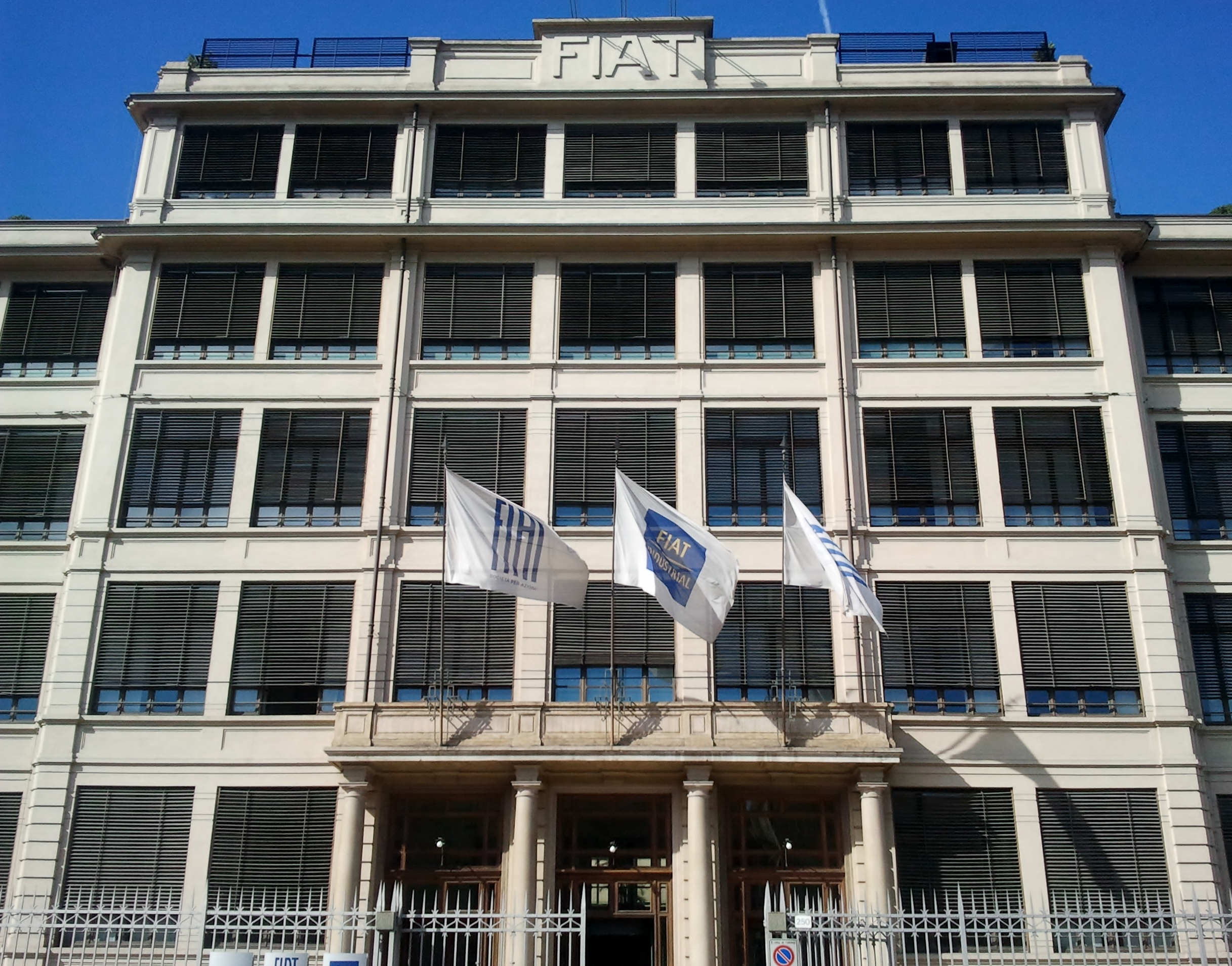 Lingotto (Palazzina entry). Torino. Italy Worldheadquarters of Fiat S.p.A. /Fiat industrial S.p.A./Exor S.p.A.